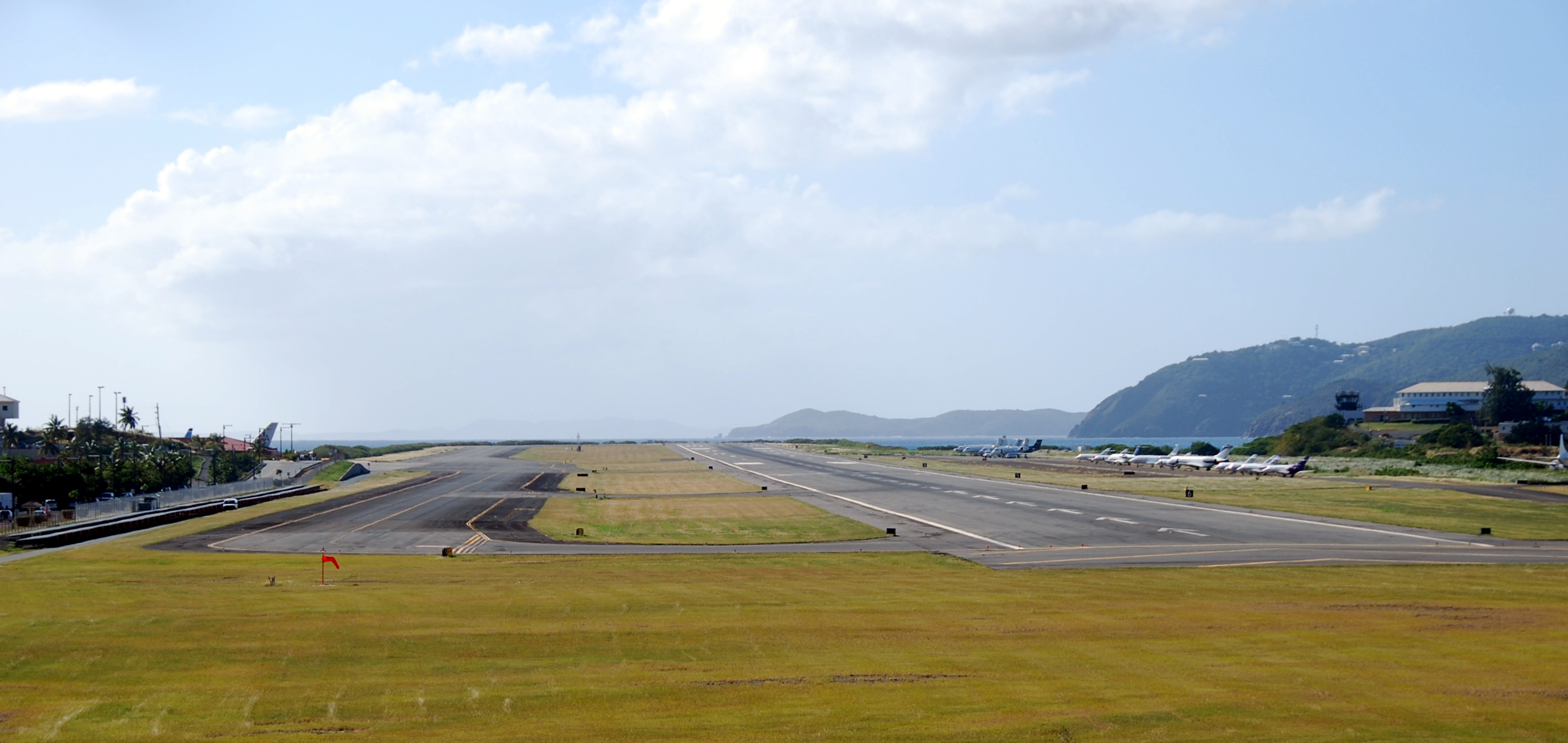 The runway and taxiway at the Cyril E. King Airport, seen from the east. The total length is 2,134 meters / 7.000 feet.